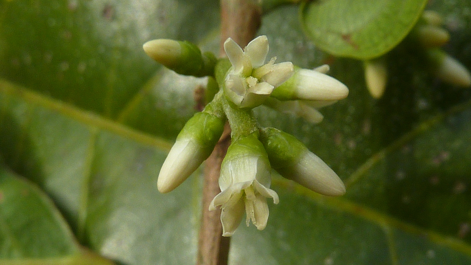 Pistillate flowers.